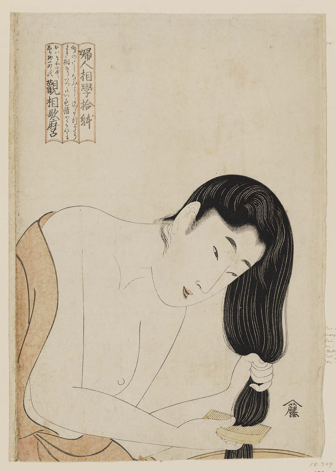 Combing the Hair, from the series Ten Types in the Physiognomic Study of Women (Fujin sōgaku juttai), woodblock print